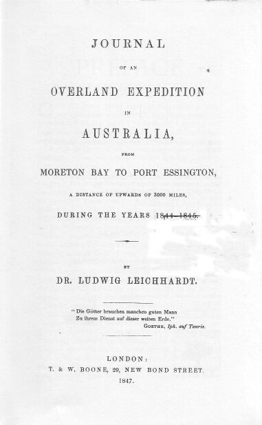 Journal of an Overland Expedition in Australia from Moreton Bay to Port Essington, a distance of upwards of 3000 miles, during the Years 1844—1845. by Dr. Ludwig Leichhardt. London, T. & W. Boone, 29, New Bond Street, 1847